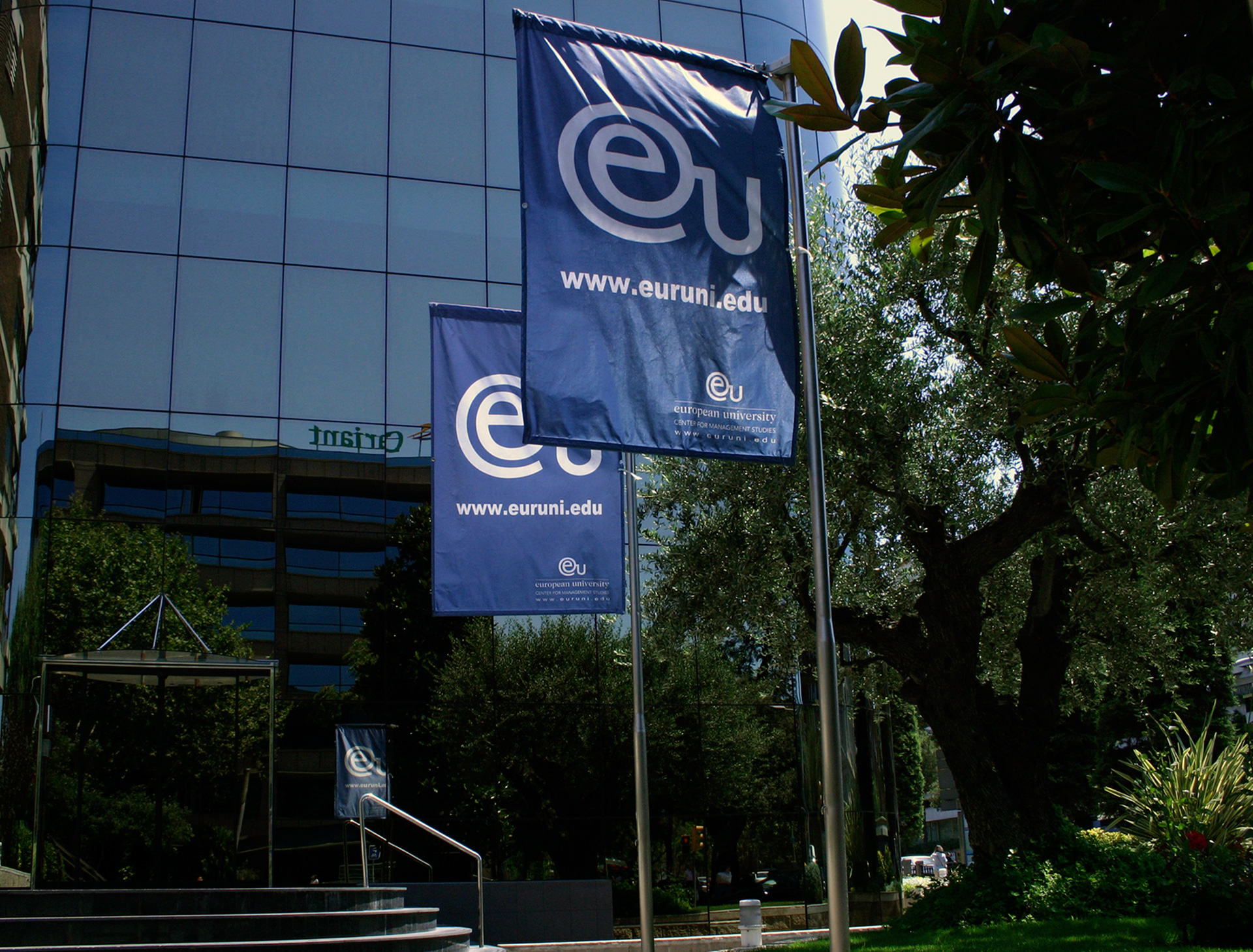 Picture of European University in Barcelona